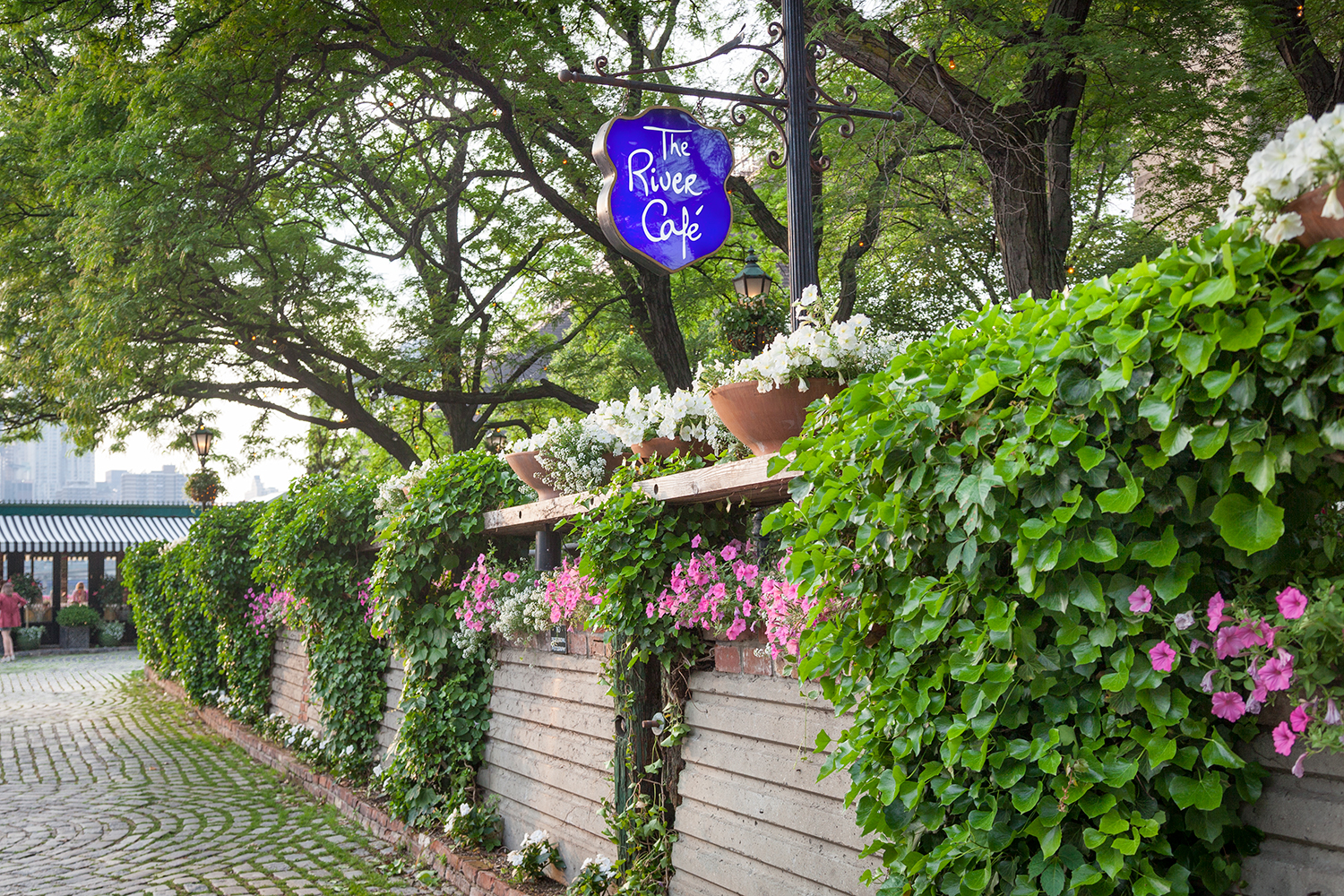 River Café, 1 Water Street, Brooklyn NY (Photo gallery of DUMBO, Brooklyn)